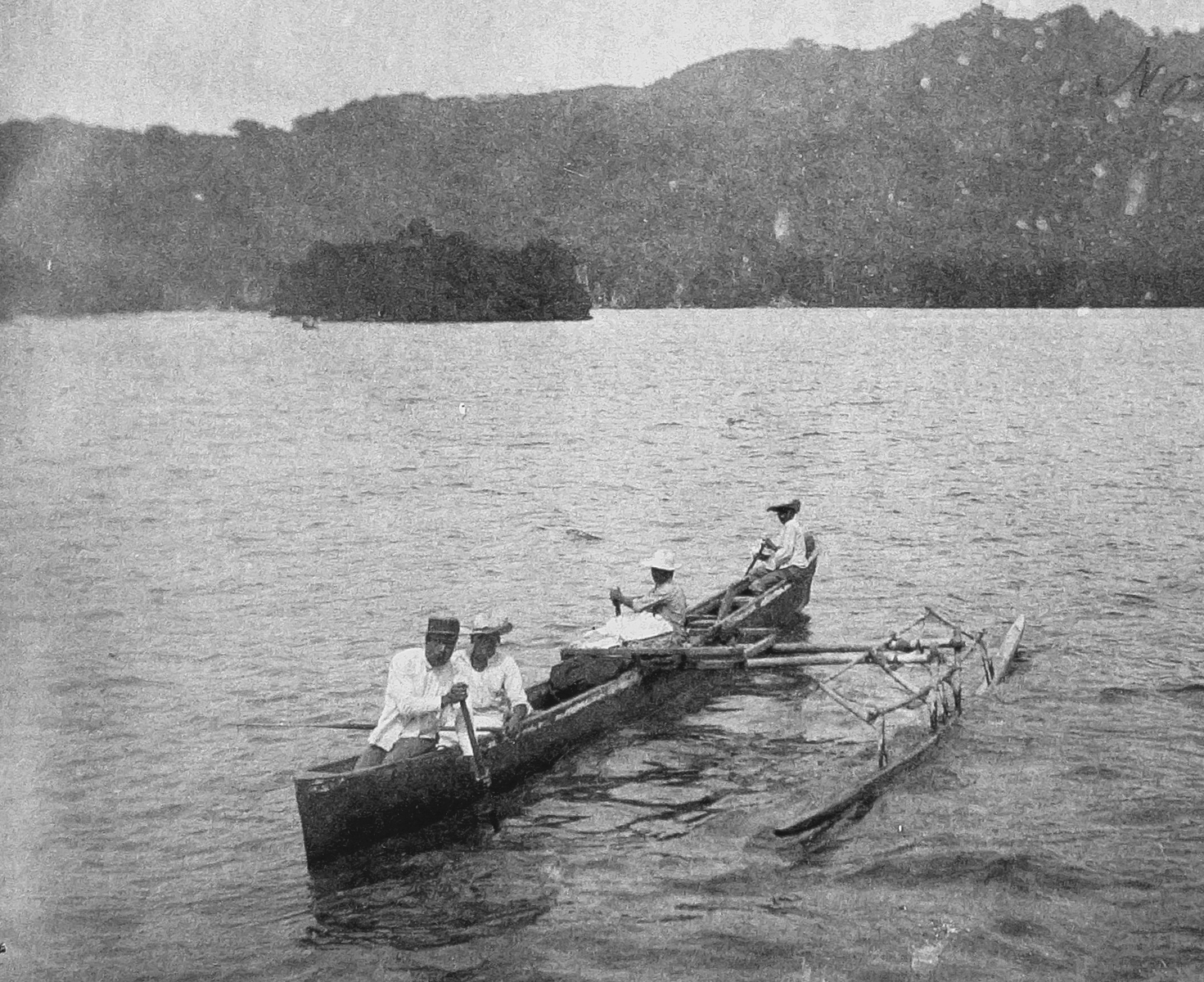 Port Lottin, Kusaie Island, Caroline Islands, Natives and native canoe (1899-1900). Sourced from Note that the very same image is also found elsewhere - eg. - in cropped form, and credited to others. Interpretation: There is a strong chance this image was taken from the steamship 'Albatross', and that the people depicted were approaching it for trading purposes.